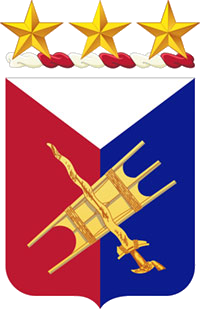 Blazon: Shield: Per pall Argent, Gules and Azure, over the second and third an Igorot war shield and kris in saltire Or. Crest:On a wreath of the colors Argent and Gules three mullets Or. Motto: LAGING UNA (Tagalog: �Always First�).